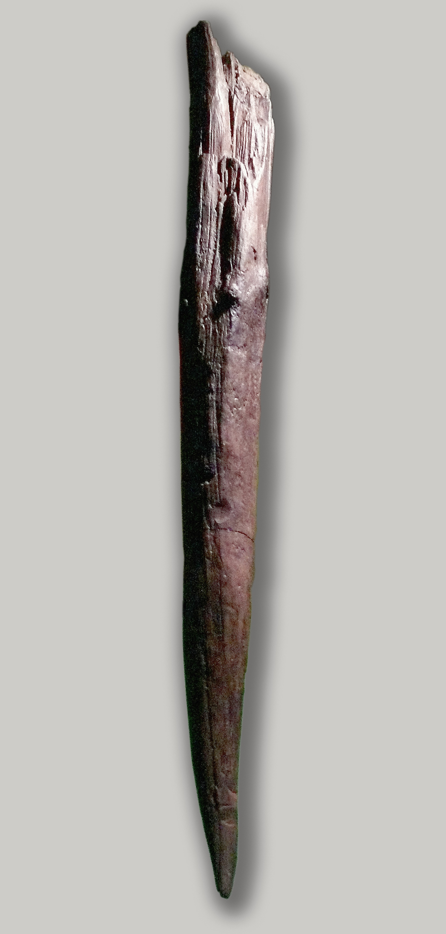 Spear head in wood hardened on fire, from Clacton (Essex, UK). It is one of the oldest wooden tools in the world (about 400 KYA).